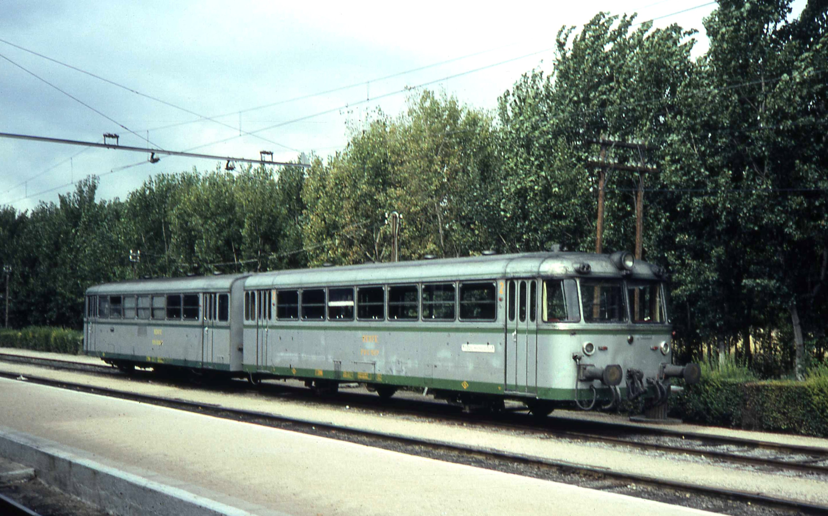 Schienenbus type railcars in Toledo station